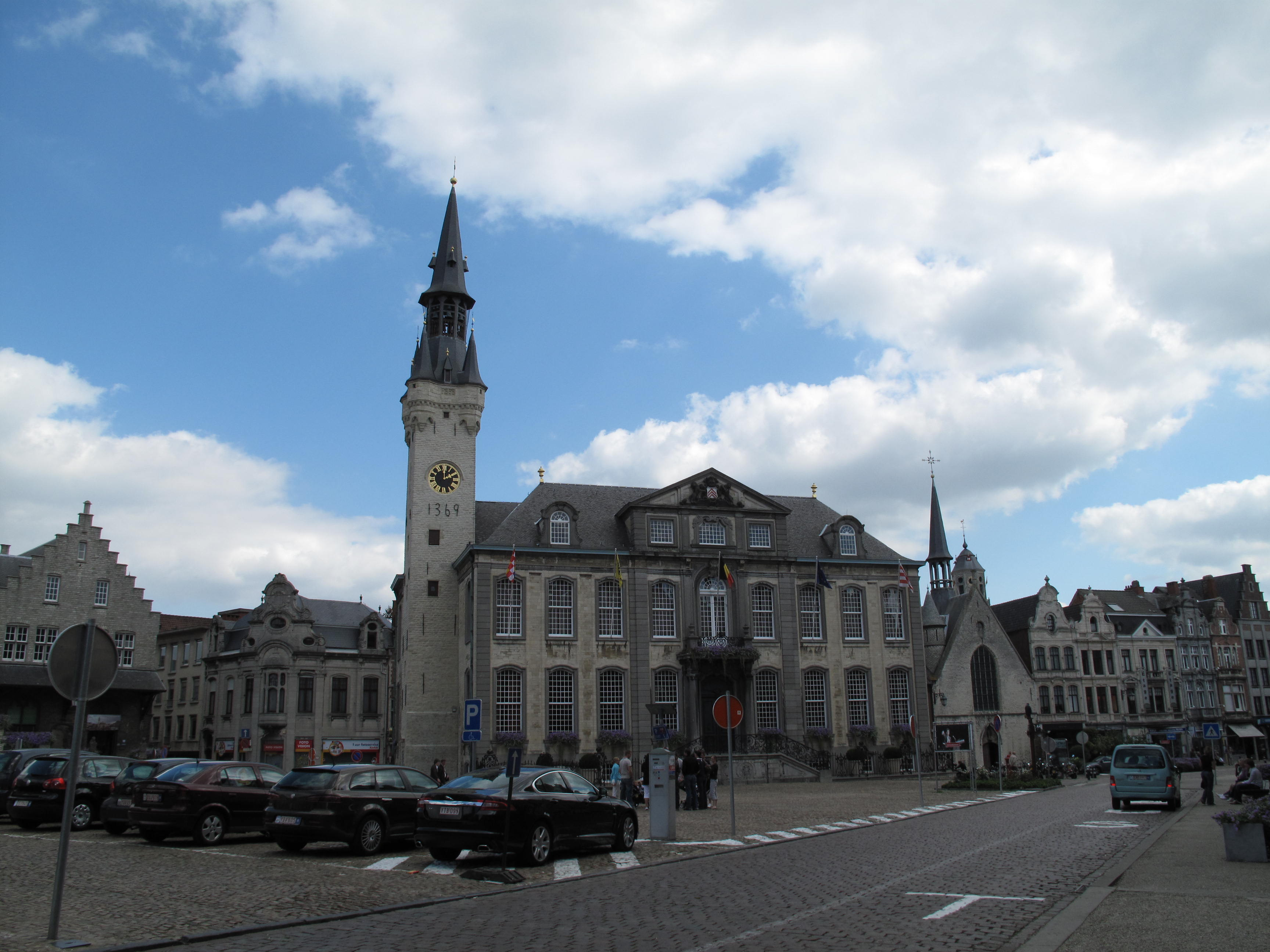 Lier, townhall and Belfort